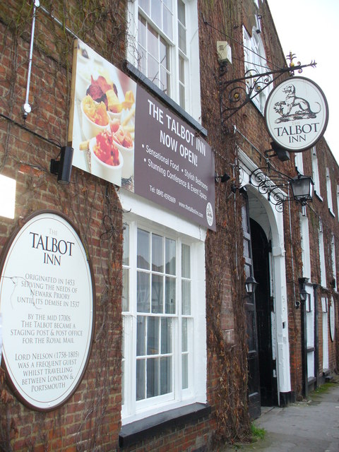 The Talbot Inn An ancient coaching inn at Ripley, on the old London - Portsmouth road. Re-opened for business in 2008. It dates back to 1453 when monks occupied nearby Newark Priory and gets its name from a hunting dog.